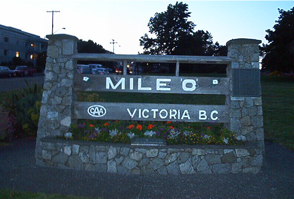 Mile zero of Trans-Canada highway, Victoria, BC.